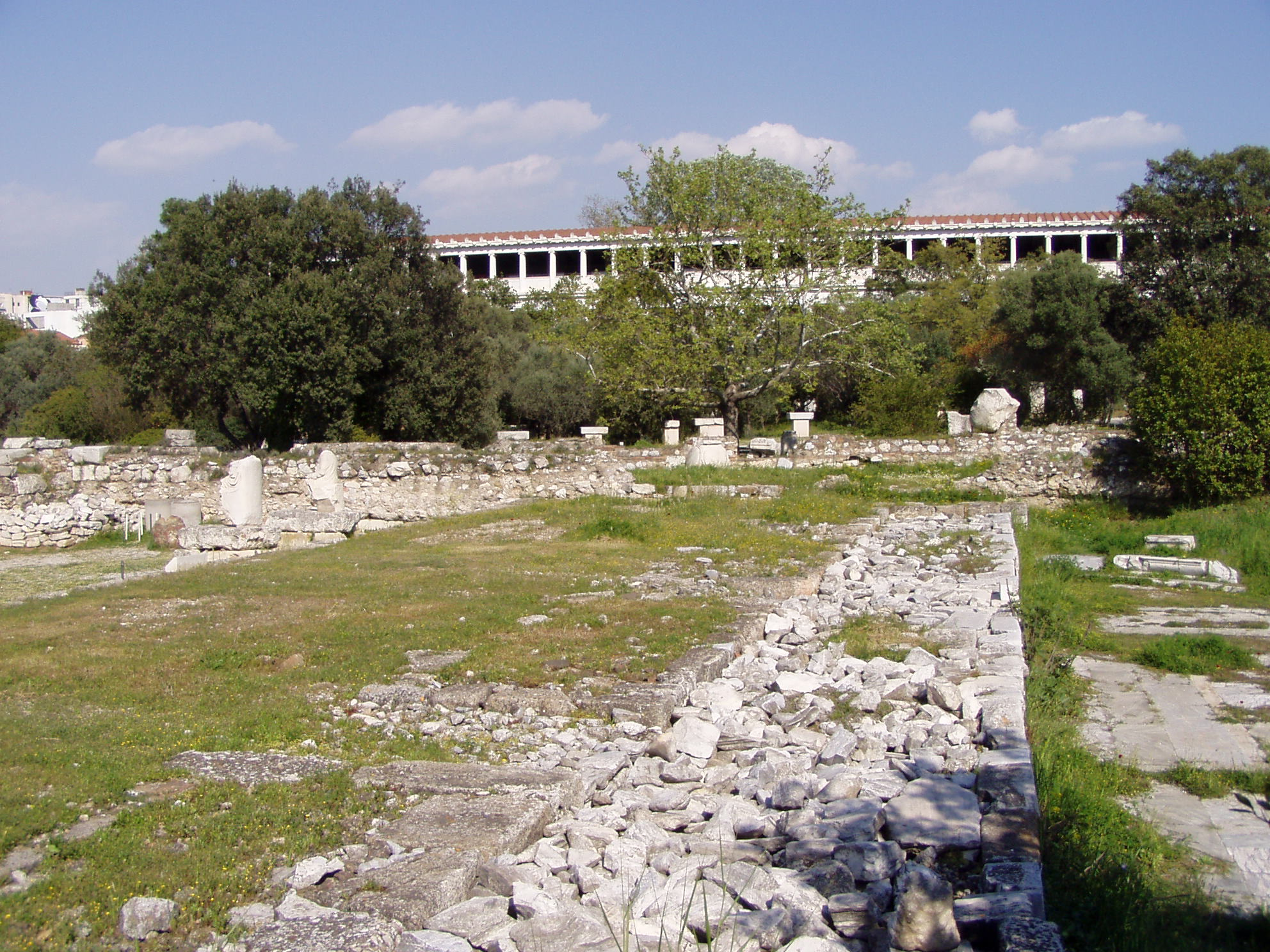 This is the Ancient Agora of Athens.